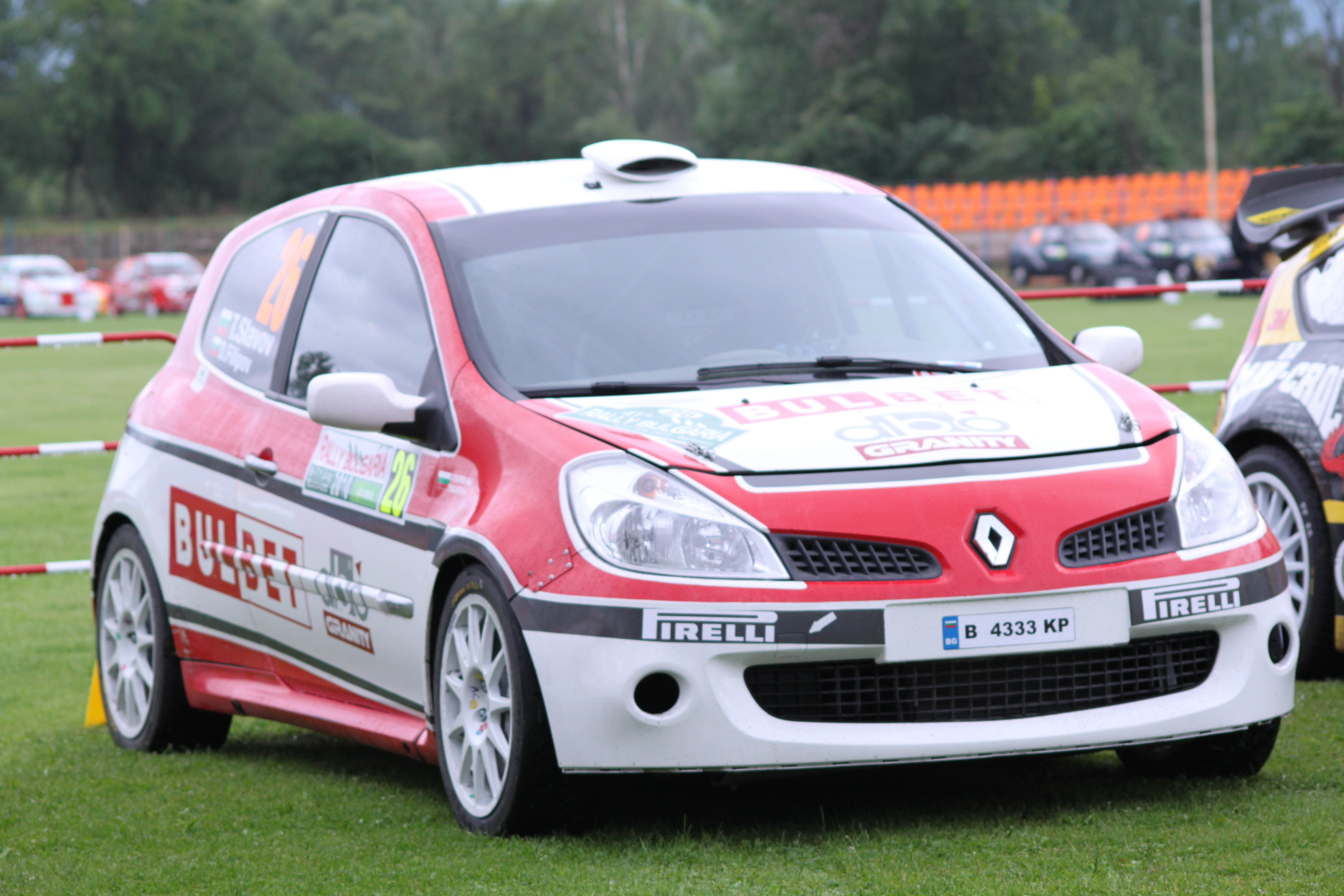 Bulgarian rally driver Todor Slavov